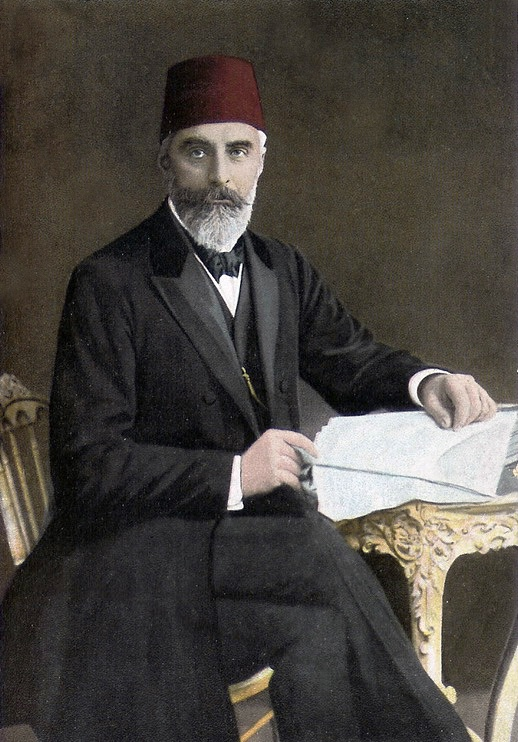 Ahmed Riza Bey (1858 – 26 February 1930) Ottoman statesman.